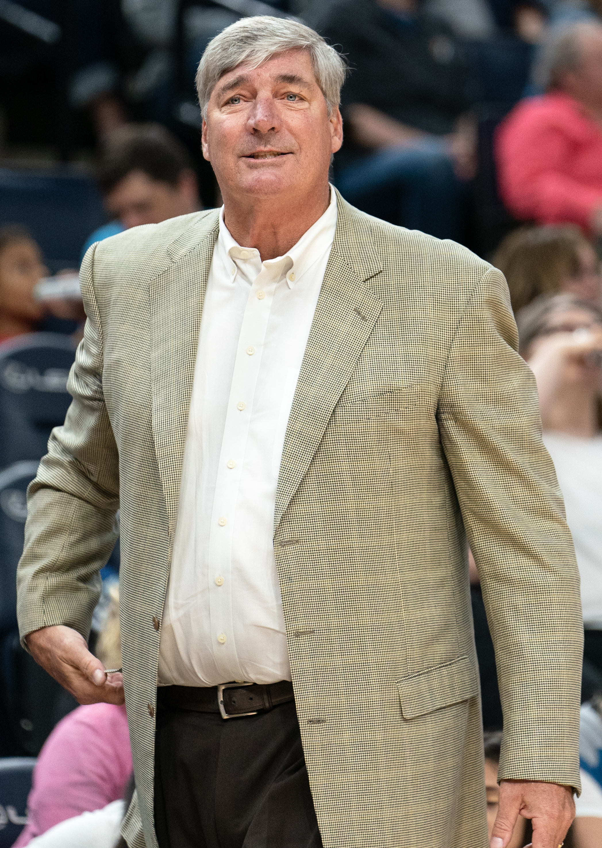 Las Vegas Aces coach, Bill Laimbeer, on the sidelines